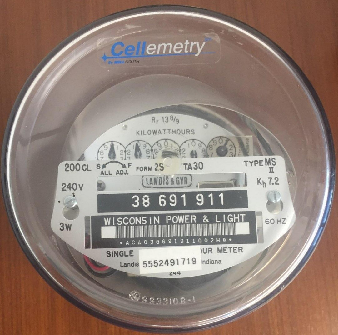 A power meter that was used in one of the first Cellemetry trials with Wisconsin Power and Light in 1996